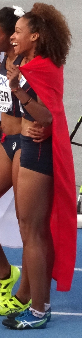 2016 IAAF World U20 Championships in Bydgoszcz, 4x100m relay women final